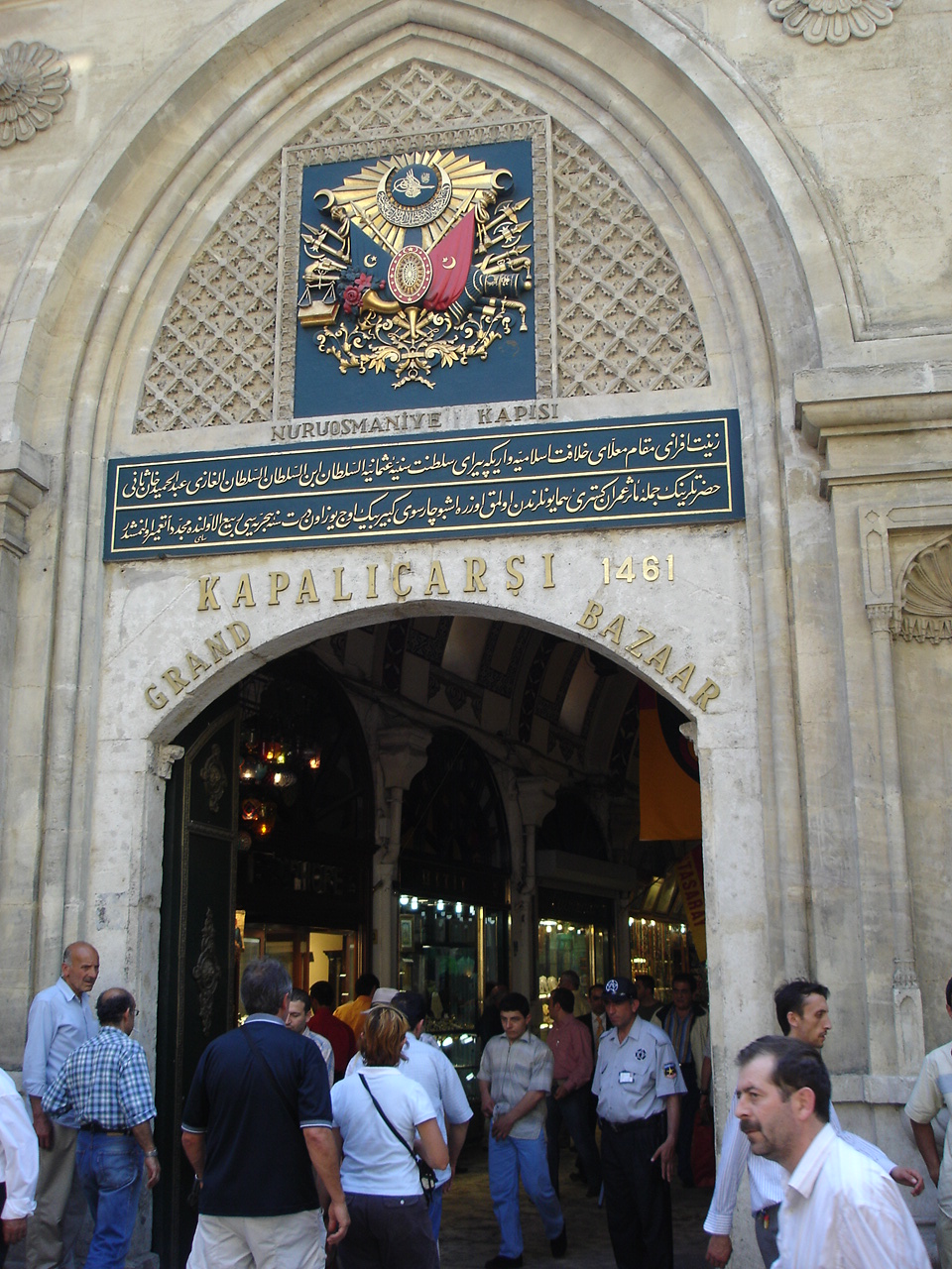 Entrance to Istanbul Grand Bazaar. Picture by: Giovanni Dall'Orto, May 29 2006.